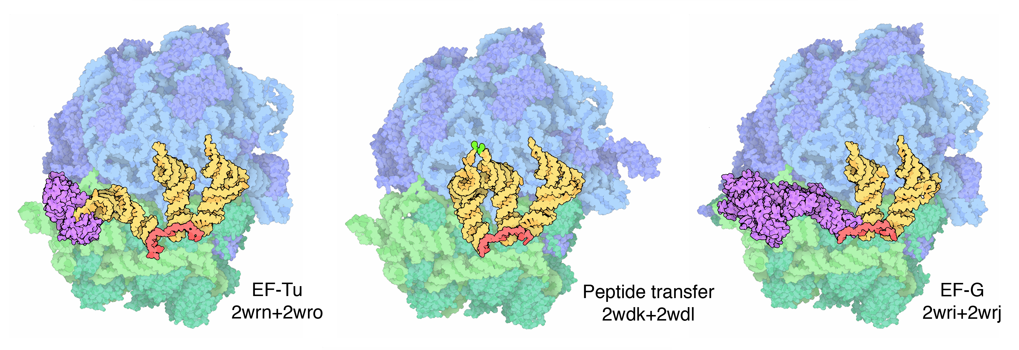 Space-fill drawing of the 70S ribosome in three stages of elongation during the mRNA-to-protein translation process. At left, the EF-Tu protein (purple) delivers a new tRNA to the A site. At center, the new peptide bond is being formed between the amino acid from the A-site tRNA and the growing protein chain held by the P-site tRNA. At right, the EF-G protein (purple) helps move everything forward one step, ejecting the tRNA that had been in the E (exit) site. Drawn by David Goodsell from PDB files 2wrn, 2wro, 2wdk, 2wdl, 2wri, and 2wrj.